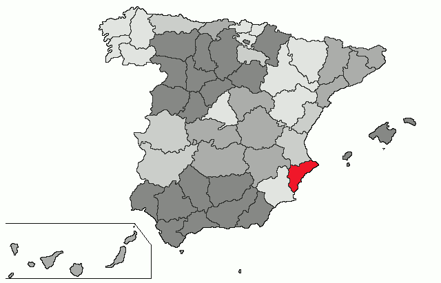 Province of Alicante Based in Image:ProvPont.jpg Source: Designed by Leoplus. Original picture, designed by Sobreira.